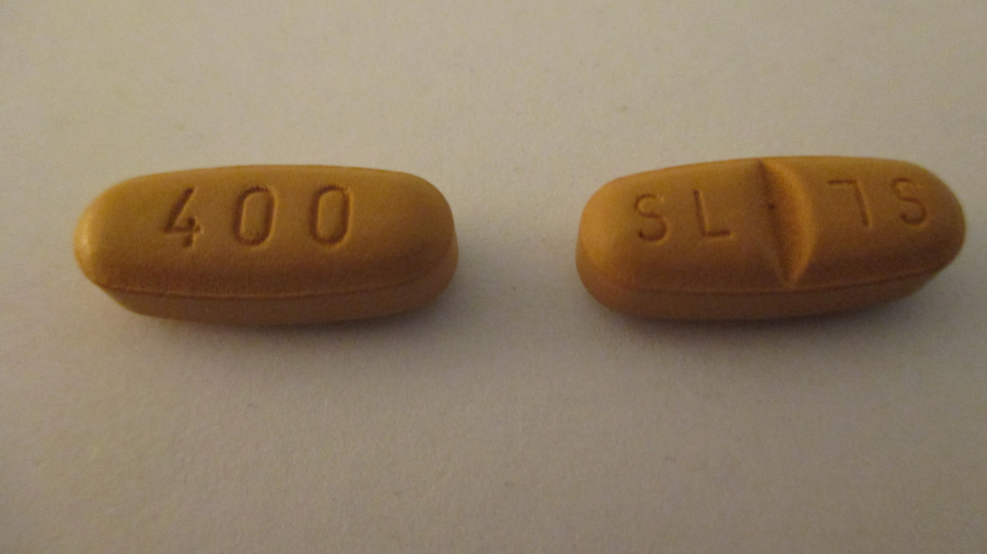 Two 400 mg Gleevec tablets, showing both the front and back